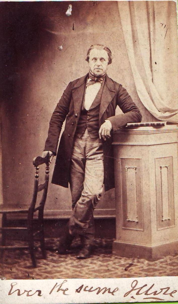 The photographic card of 'Poet Close', created by Moses Bowness some time before 1880. It is signed with John Close's motto, 'Ever the same'.